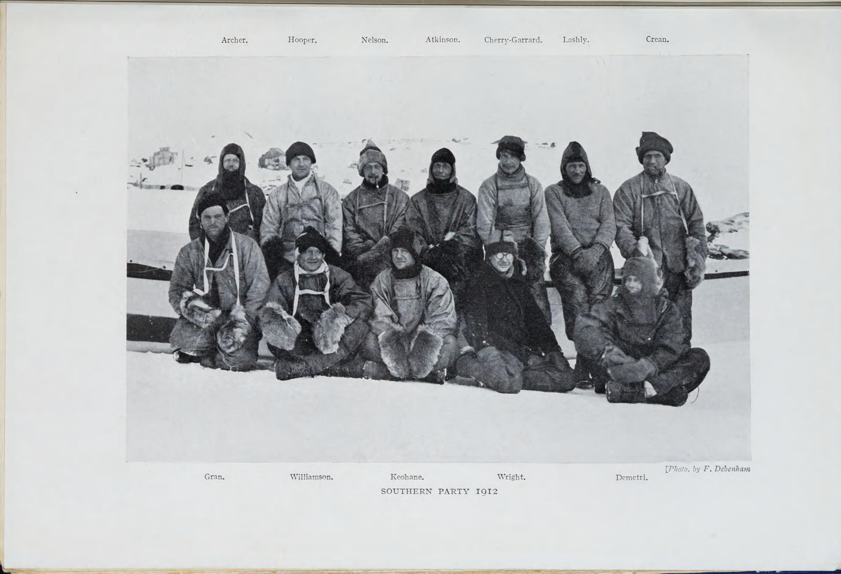 Scott's last expedition /